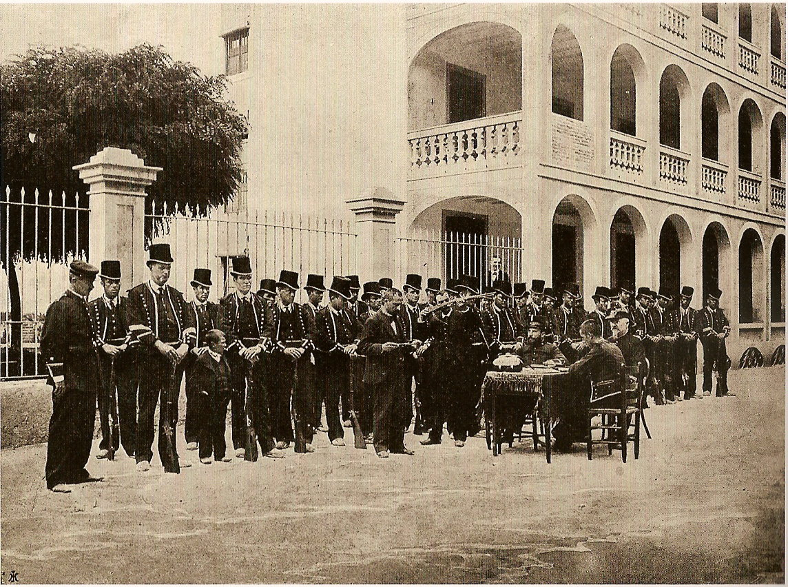 Inspection of a formation of Mossos d'Esquadra somewhere in Catalonia in the late 19th century.